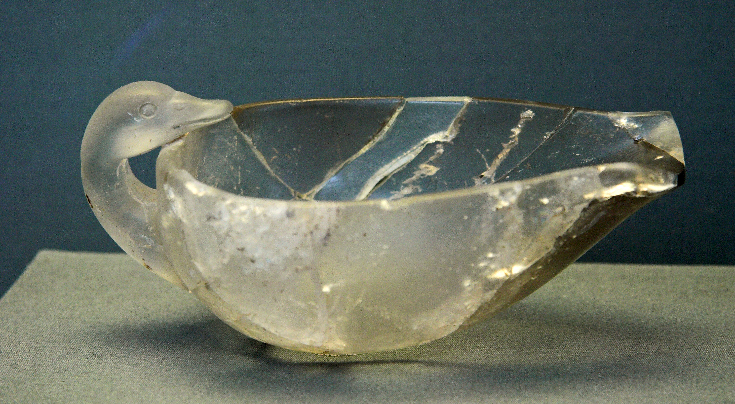 Small vessel in the shape of swans, rock crystal (ǃ). Mycenae, 16 century BC. National Archaeological Museum of Athens, N 8638.